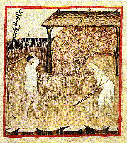 Spelt (Spelta) Nature: Warm quality. Optimum: The heaviest and most ponderous. Usefulness: Good for the chest, for the lungs, and for a cough. Dangers: It is harmful to the stomach and is less nourishing than wheat. Neutralization of the Dangers: By consuming it with anise. From the Theatrum of Casanatense